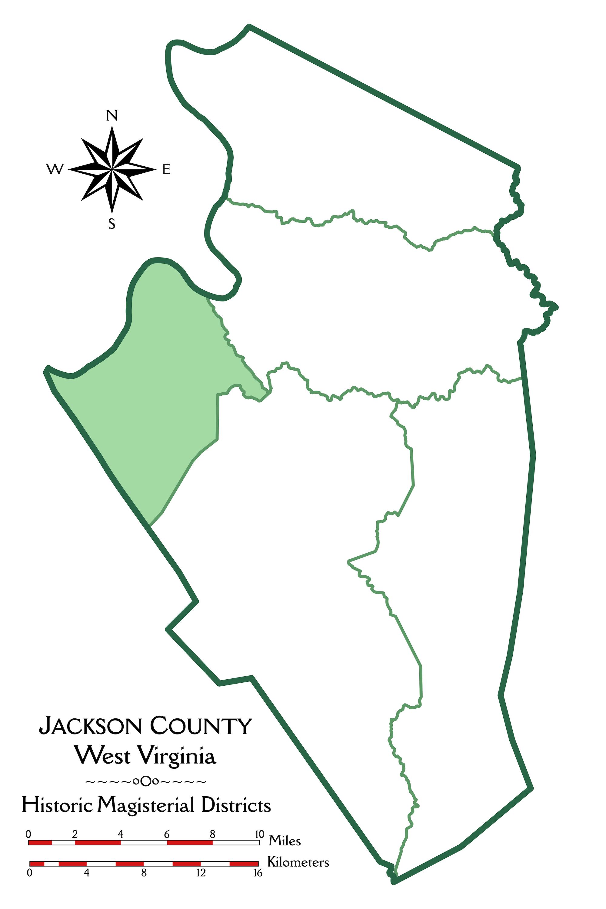 Outline map of Jackson County, West Virginia, showing the boundaries of the historic magisterial districts. Union District is shaded.